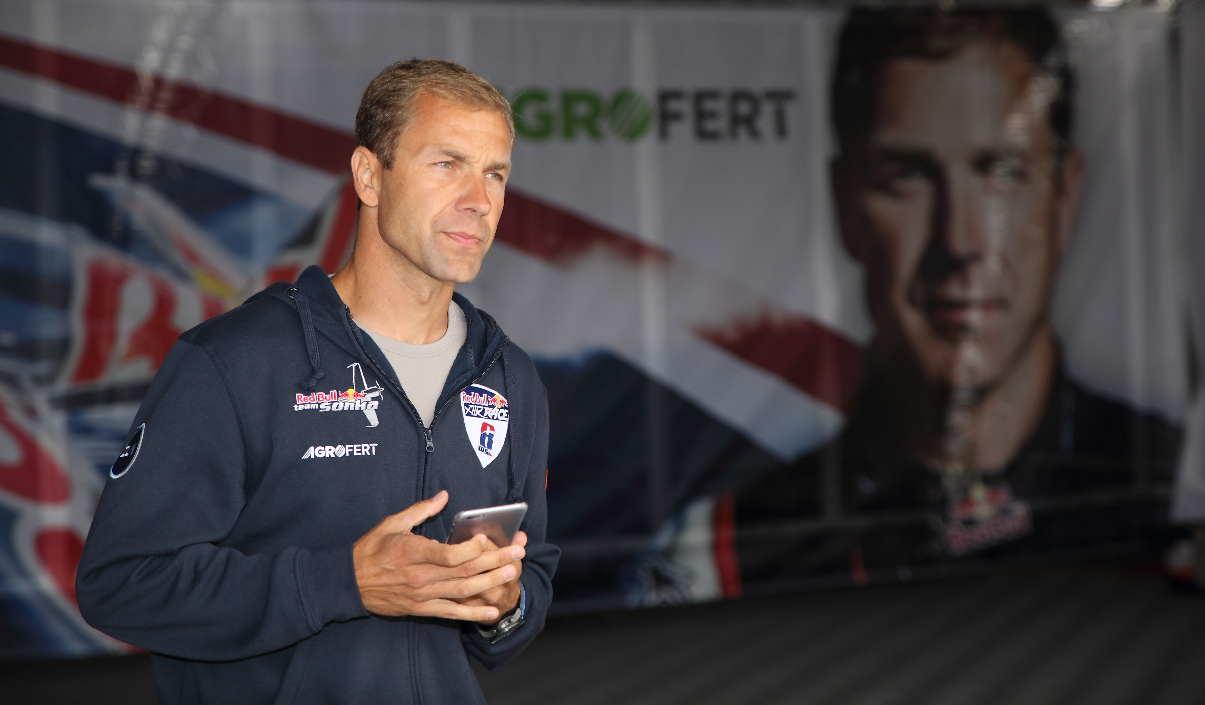 Martin Šonka, 2017 Red Bull Air Race of Porto